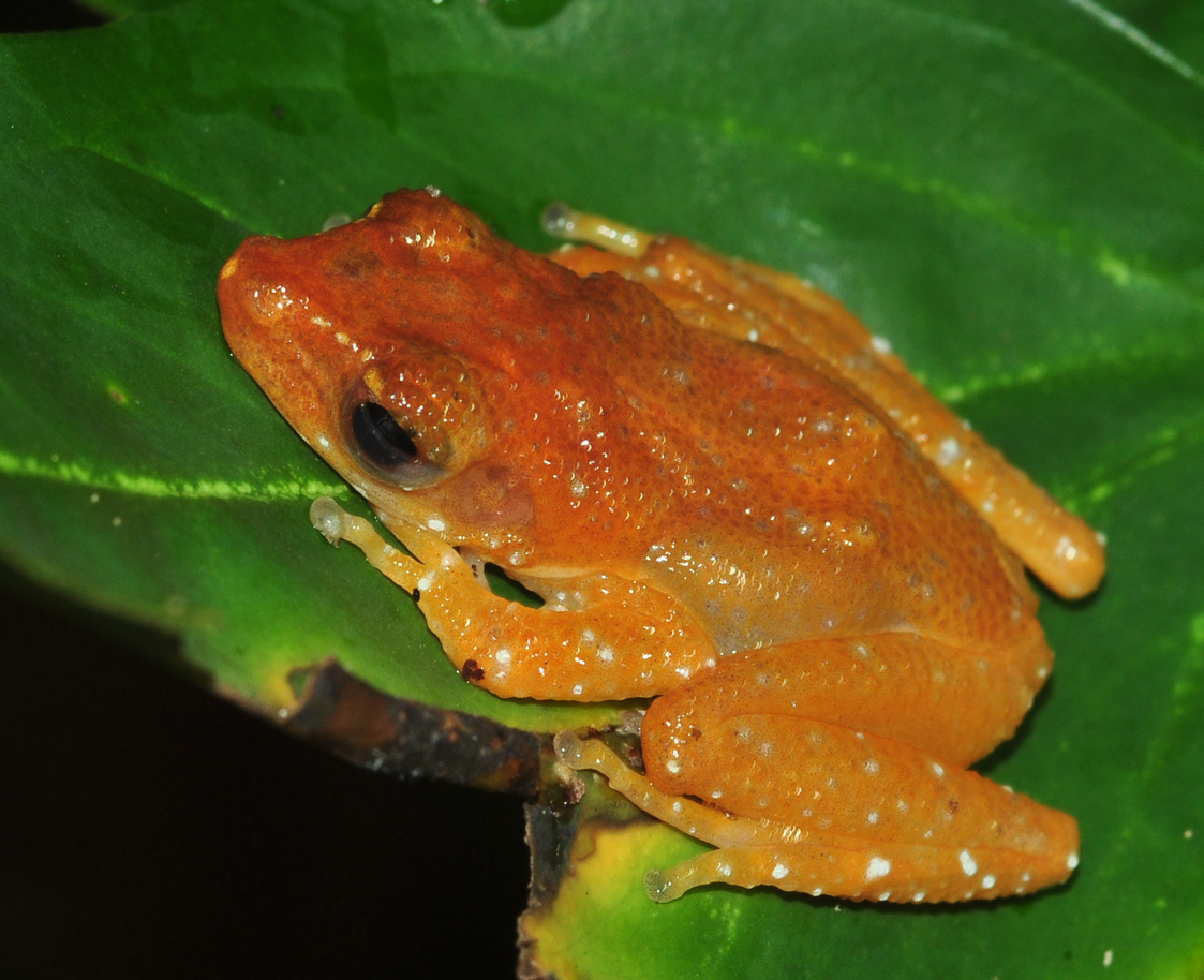 Seen in Bukit Timah